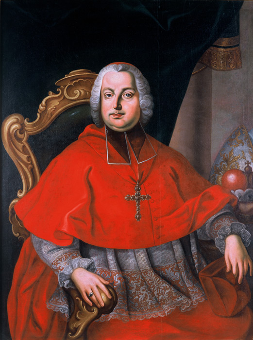 Cardinale Ferdinand Julius von Troyer (1698-1758), prince-bishop of Olomouc from 1746 to 1758